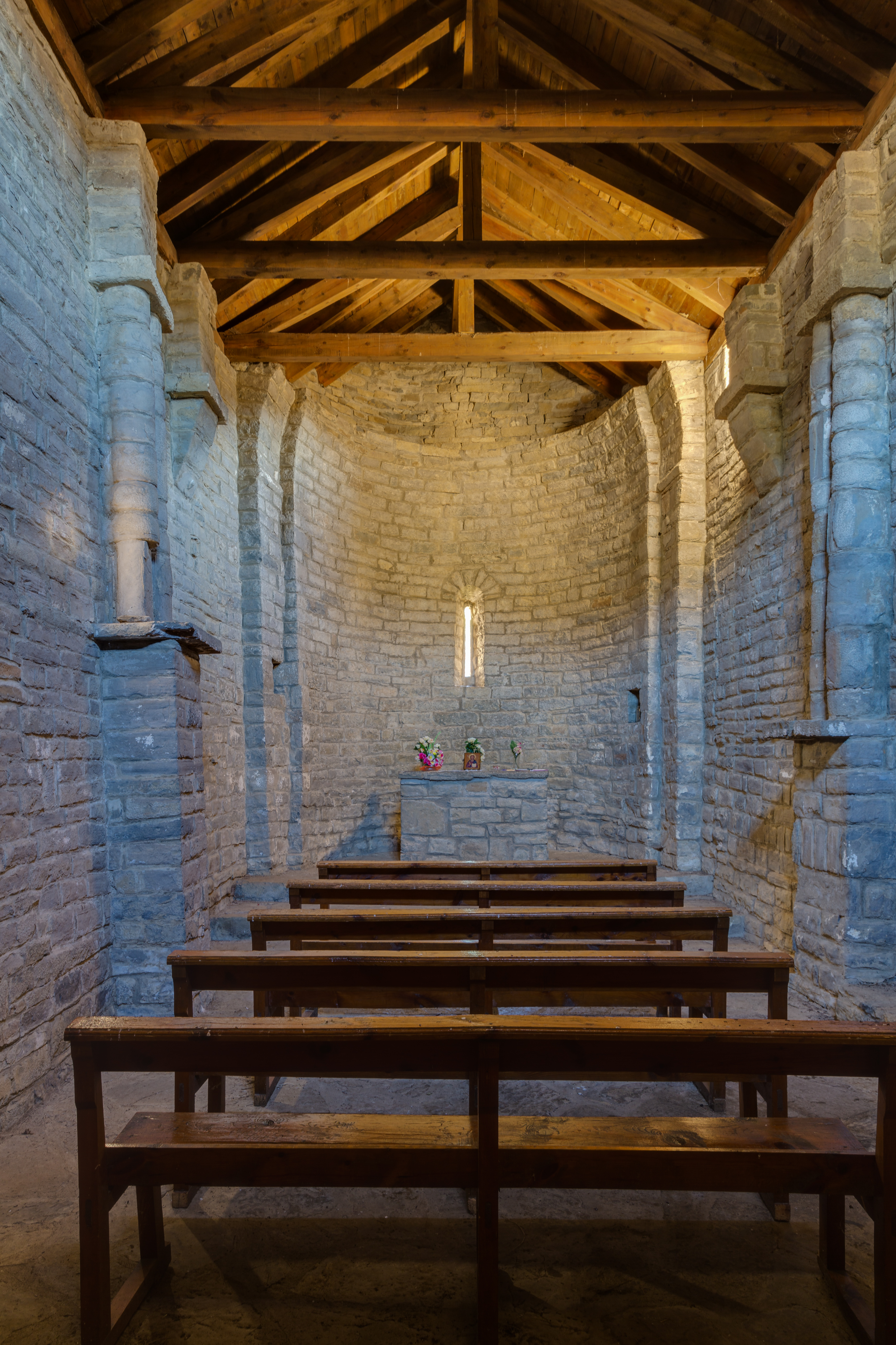 St John of Busa, Oliván, Huesca, Spain